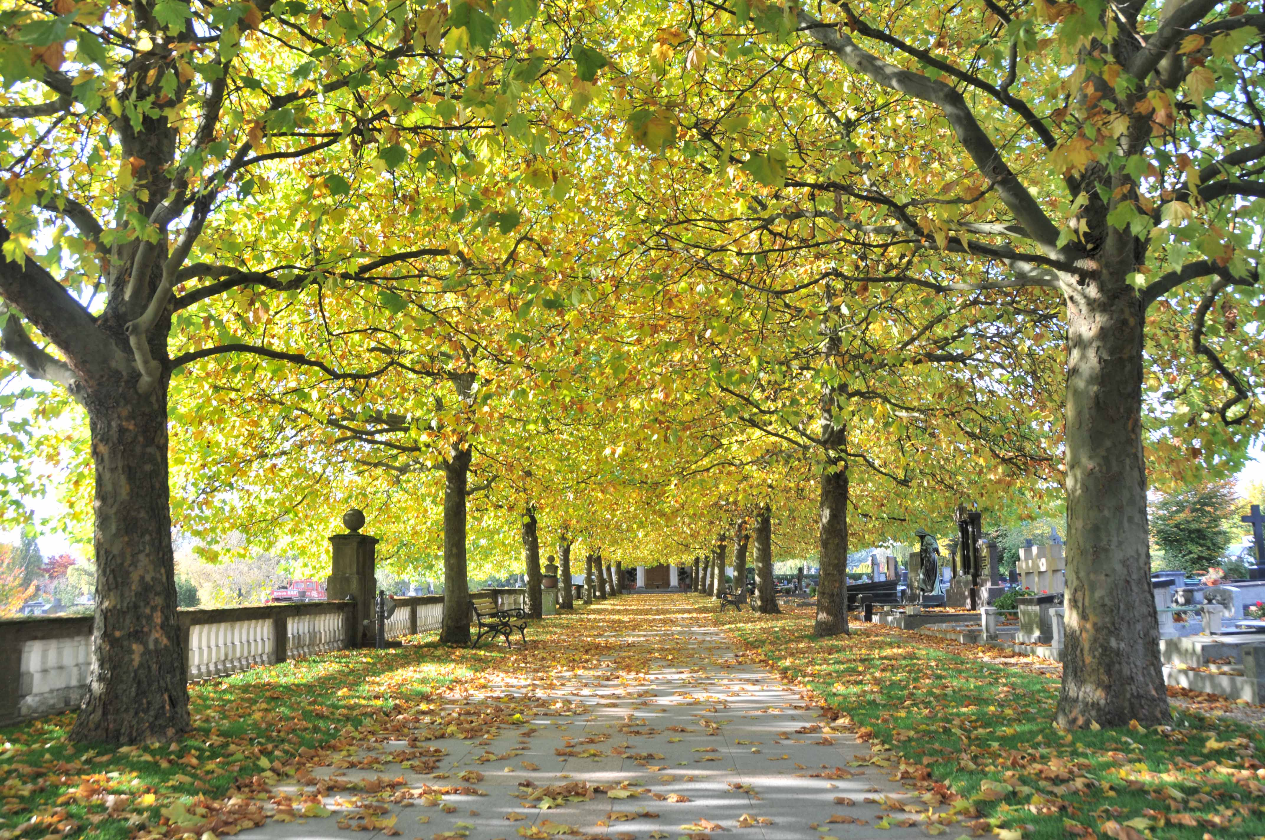 Luxembourg-Limpertsberg, Notre-Dame cemetery: plane walk.